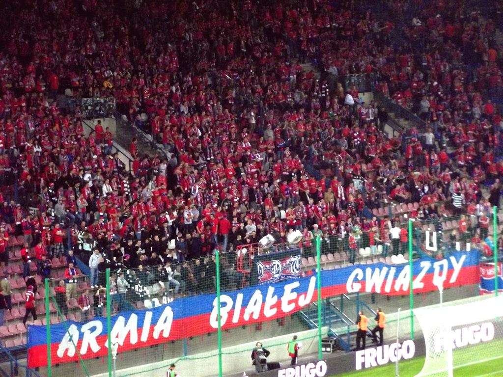 Wisła Kraków fans.